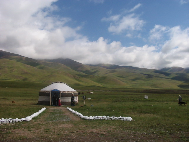 Yurt by Bishkek - Osh road